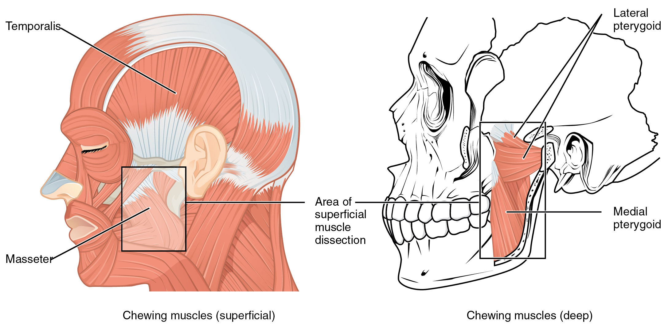 Version 8.25 from the Textbook OpenStax Anatomy and Physiology Published May 18, 2016